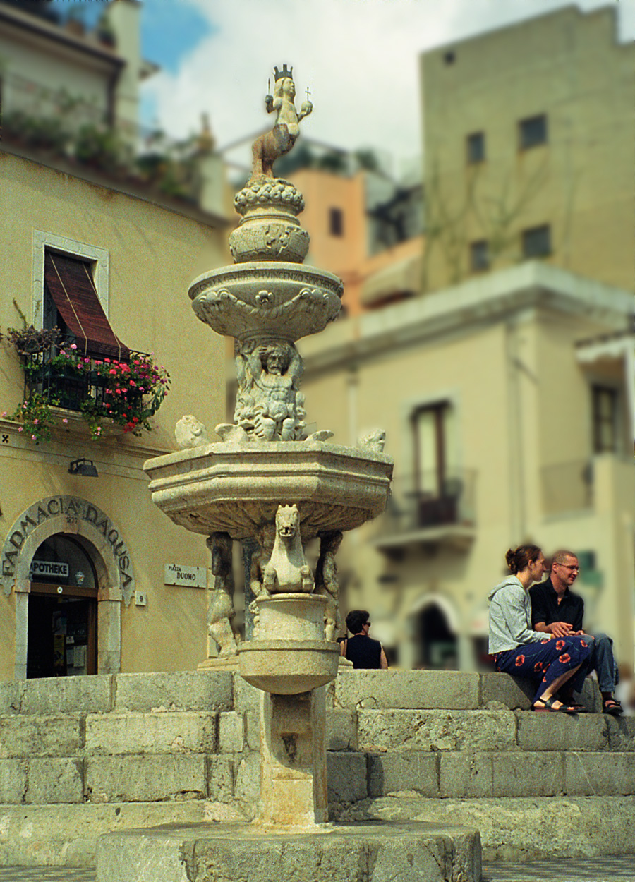 The baroque-style Fountain of the Minotaur, built in 1635, topped by a heraldic minotaur, standing in Piazza Duomo square at Taormina (Sicily). Picture by Jerzy Strzelecki, 2002.